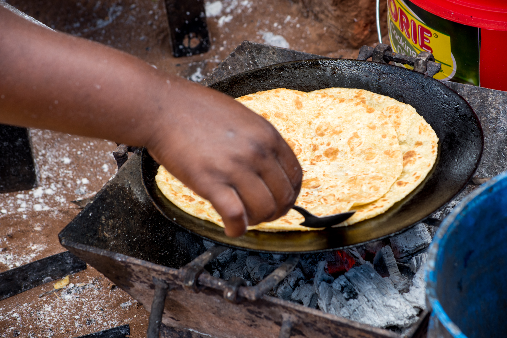 This is an image of "African people at work" from Tanzania